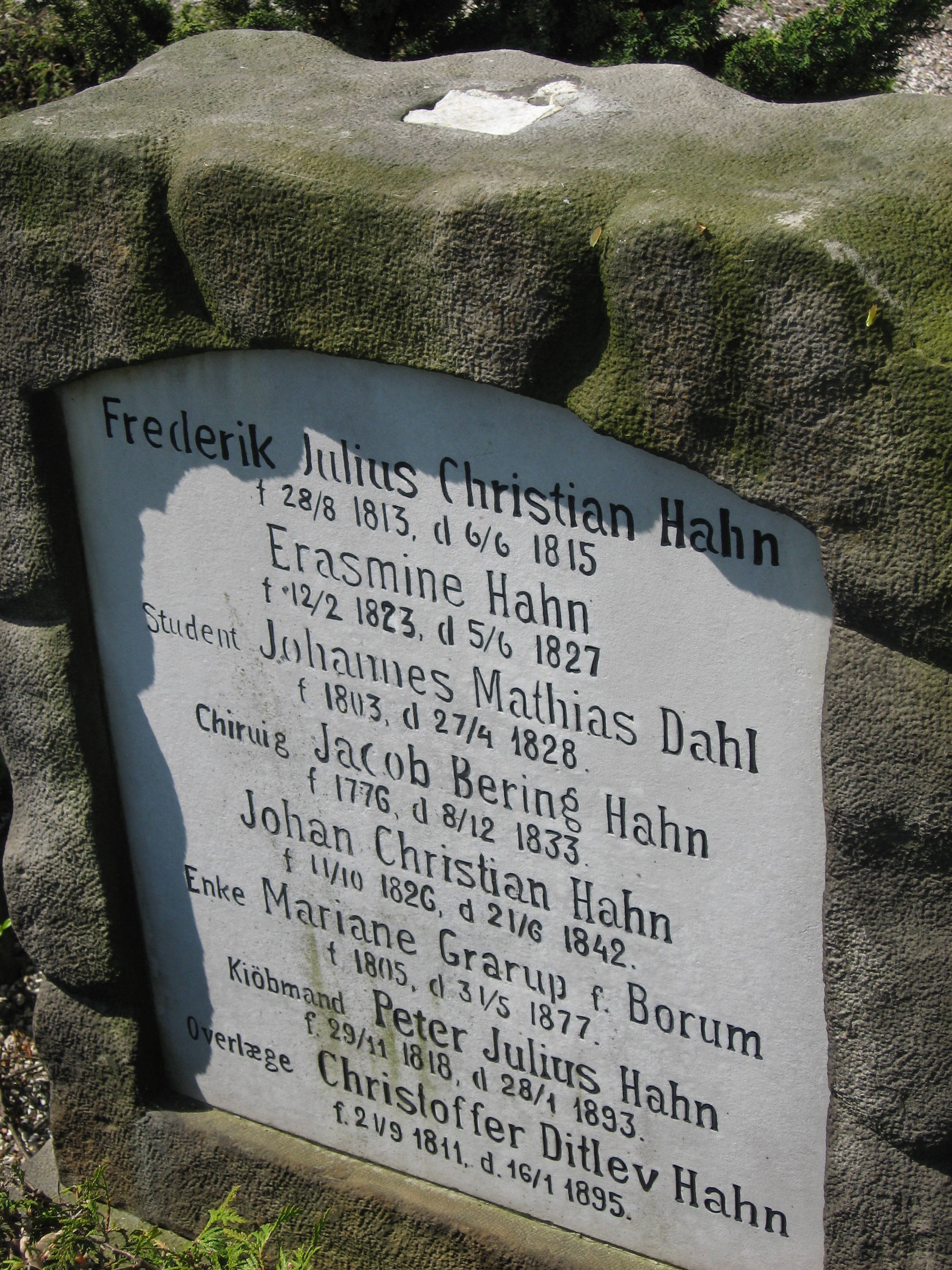 Gravestone for the Hahn family (father, mother and several sons and daughters) at the cemetery at Brabrand Kirke near Århus, Denmark. Here the back with the names of the sons and daugthers.